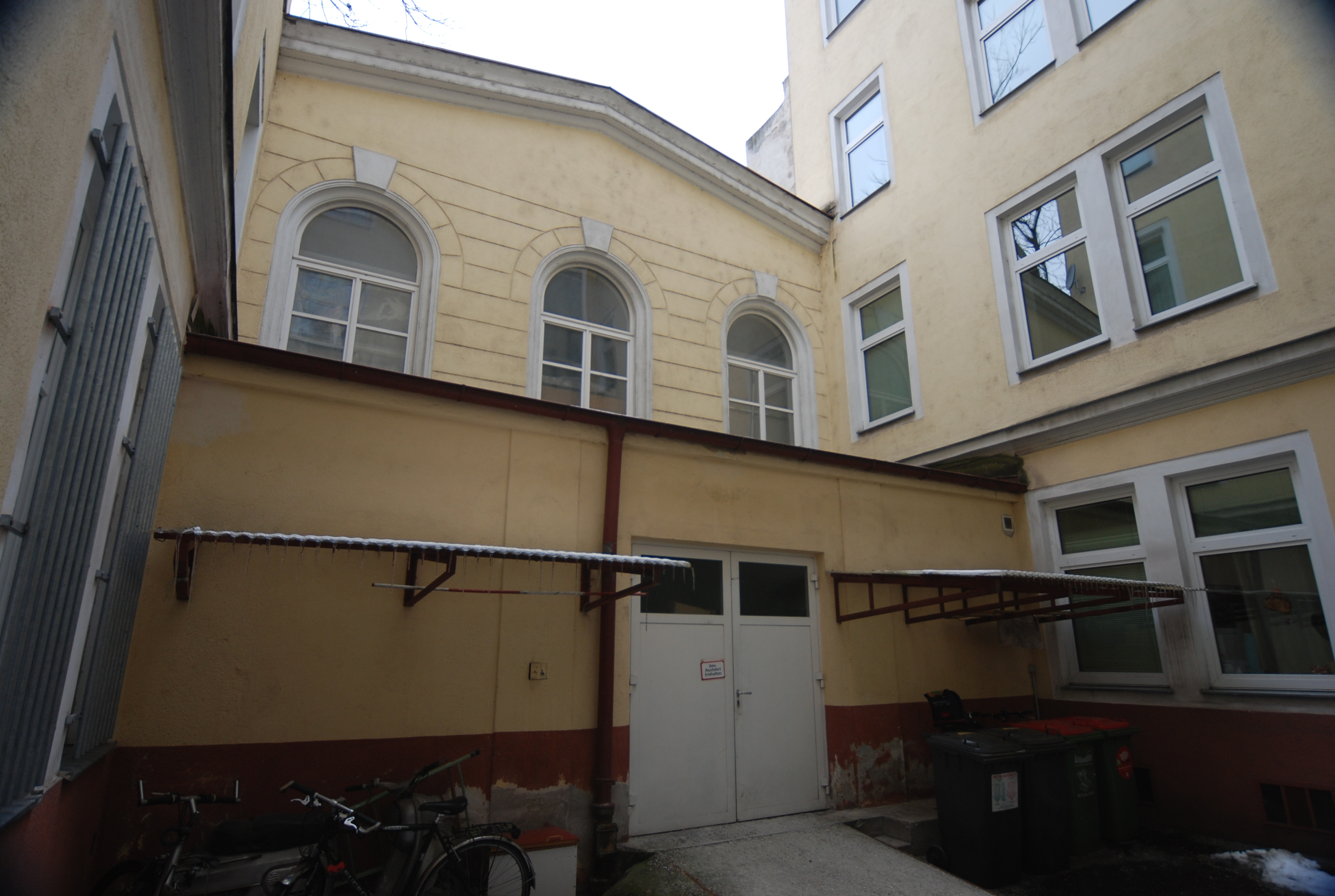 Courtyard view former synagogue building (Untere Viaduktgasse 13 Vienna)